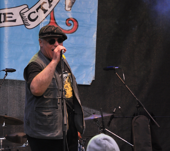 The Bulgarian rock blues and soul singer Kamen Katsata performing at "Flower for Gosho Fest" 2011, South park, Sofia.